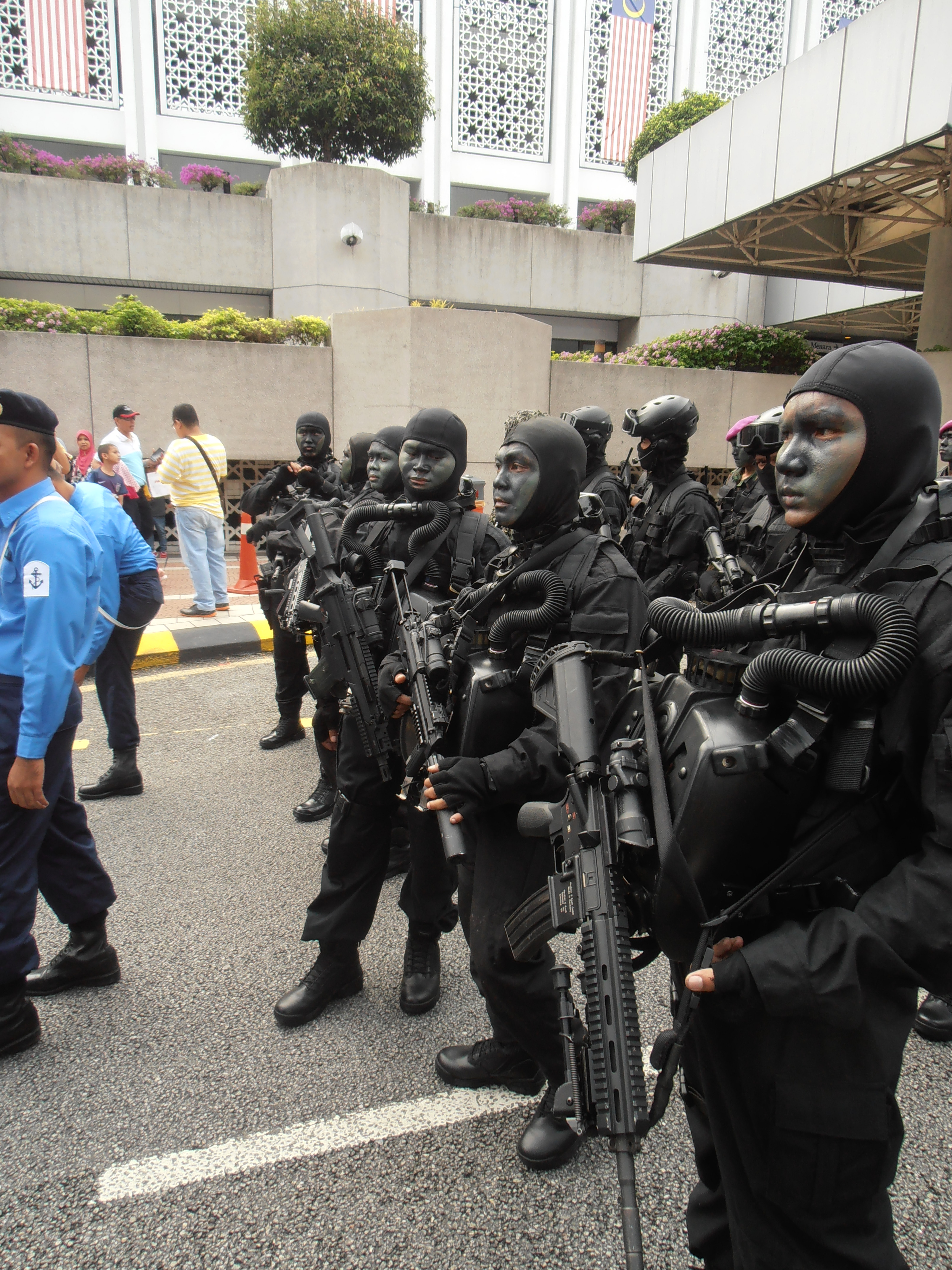 The navy PASKAL members standby to parade during the 56th National Day Parade of Malaysia at Merdeka Square, Kuala Lumpur.